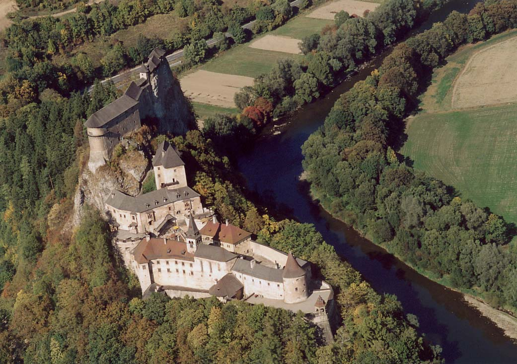 Orava Castle - Slovakia - Europe